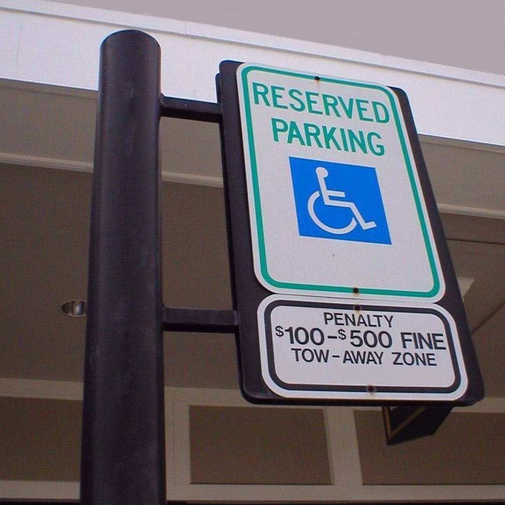 Sign indicating parking is reserved for vehicles with a handicapped tag or placard